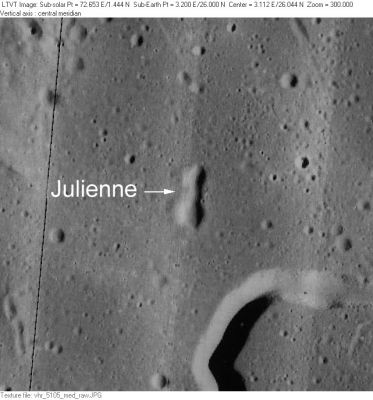 LO-V-105M A small part of Rima Hadley is visible in the lower right